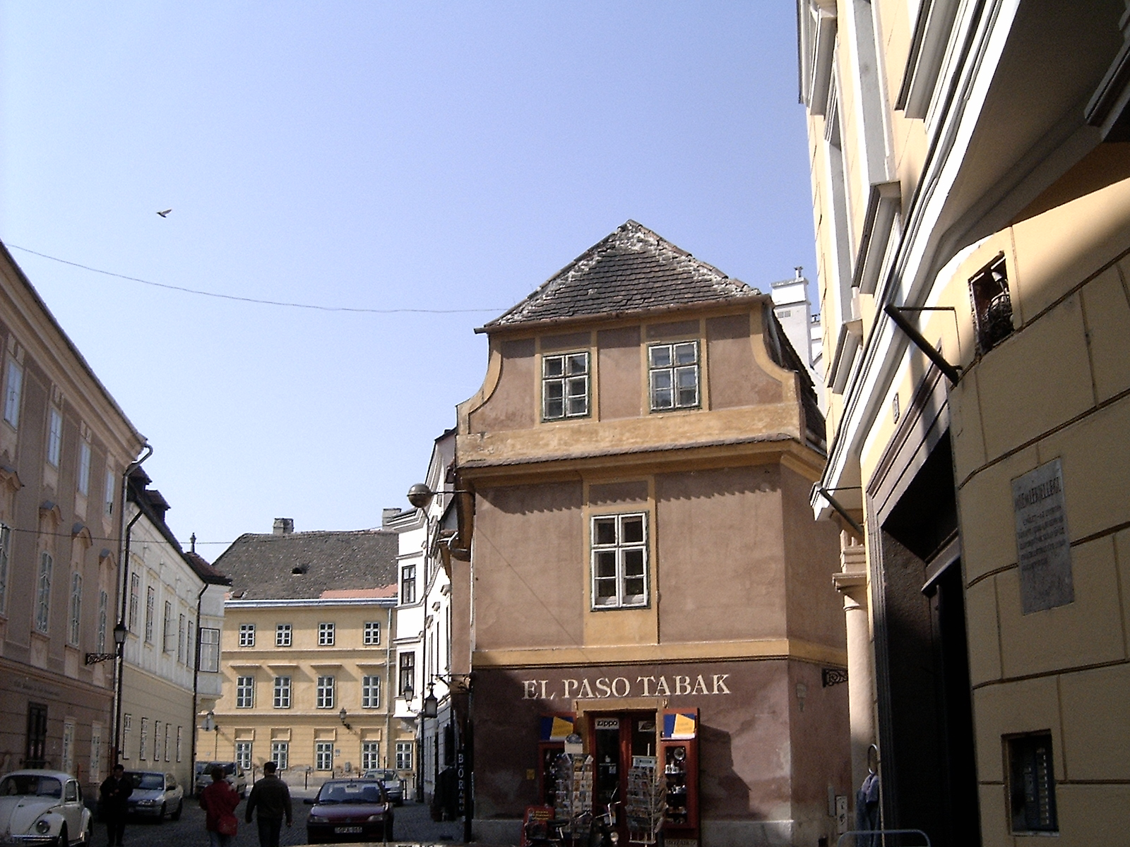 Probst-house. Műemlék lakóház ID 4270 16. sz.-i eredetű, barokk, 18. sz. - Győr, Király utca 3 This is a photo of a monument in Hungary, Identifier: 4270 Object location47° 41′ 15.48″ N, 17° 37′ 53.58″ E